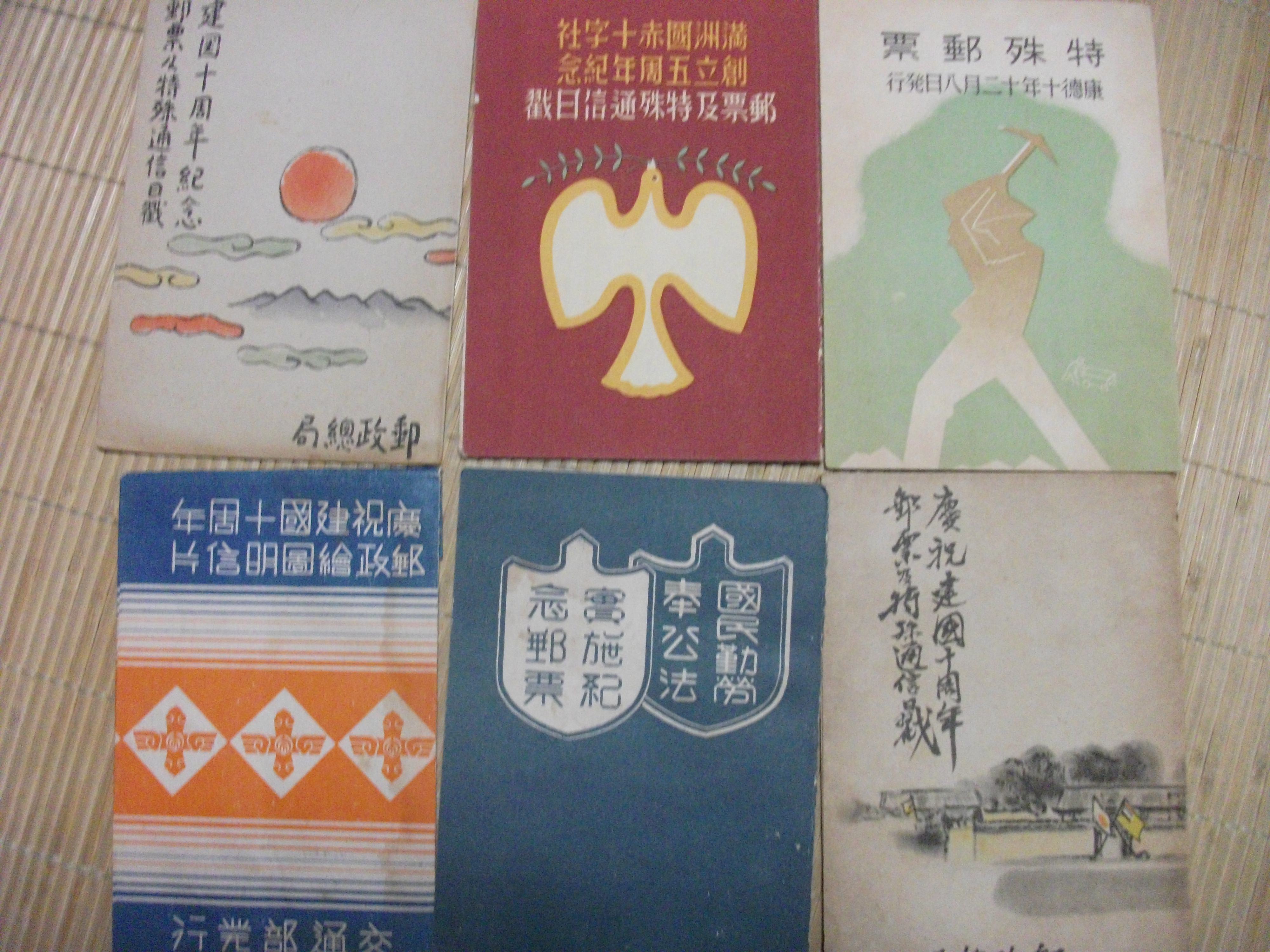 Manchukuo a stamp and a postcard